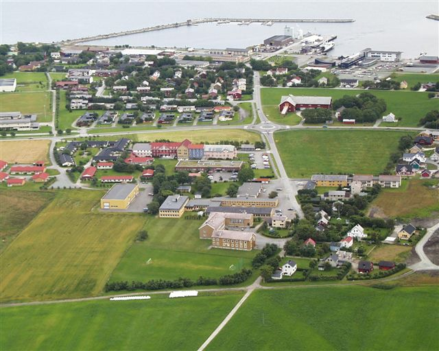 Brekstad of Ørland municipality, Norway. Seen from west